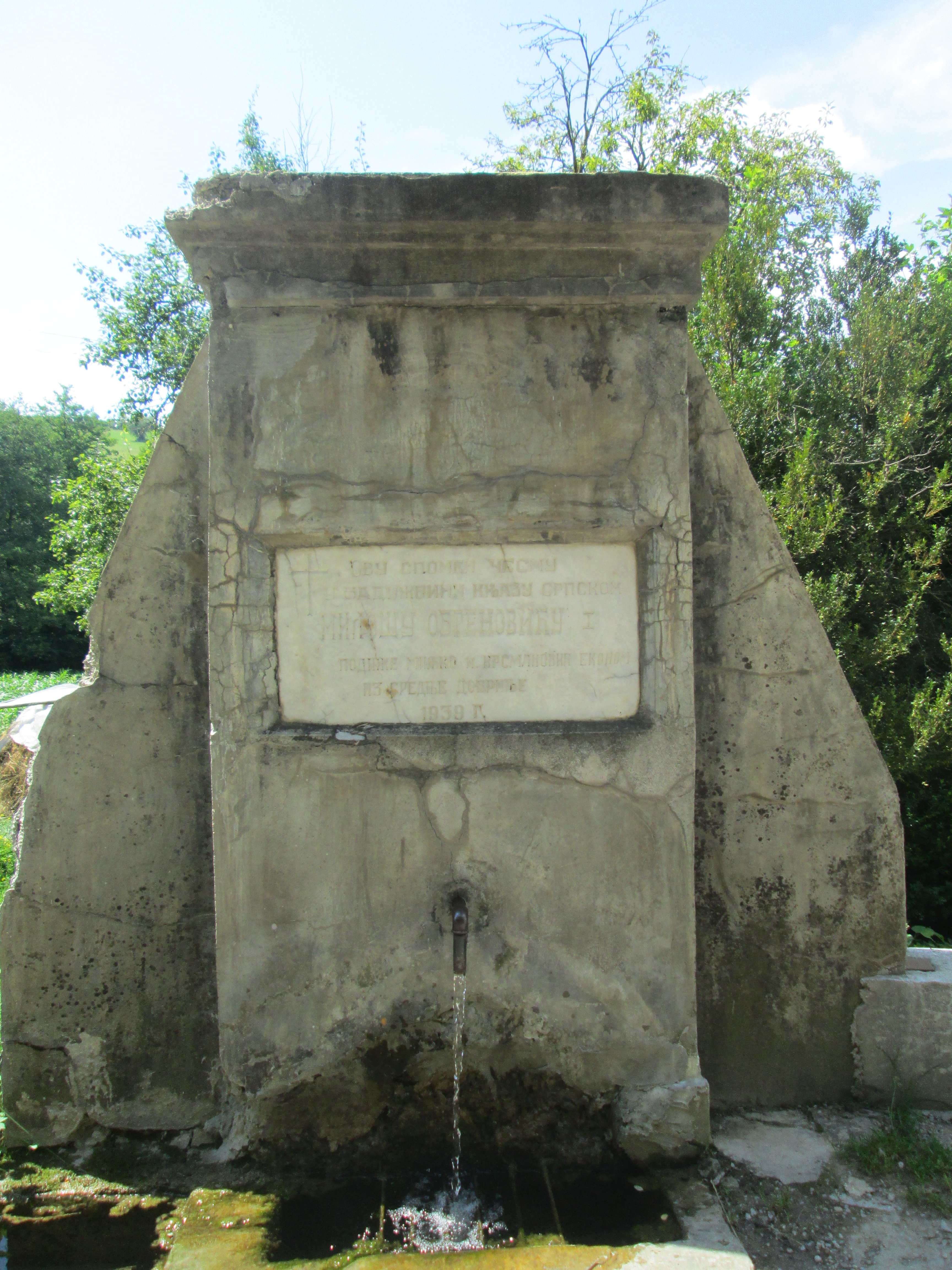 Memorial fountain built by Miljko Krsmanović for prince Miloš Obrenović (1939), Srednja Dobrinja Српски (ћирилица): Спомен чесма Миљка Крсмановића кнезу Милошу Обреновићу (1939.), Средња Добриња